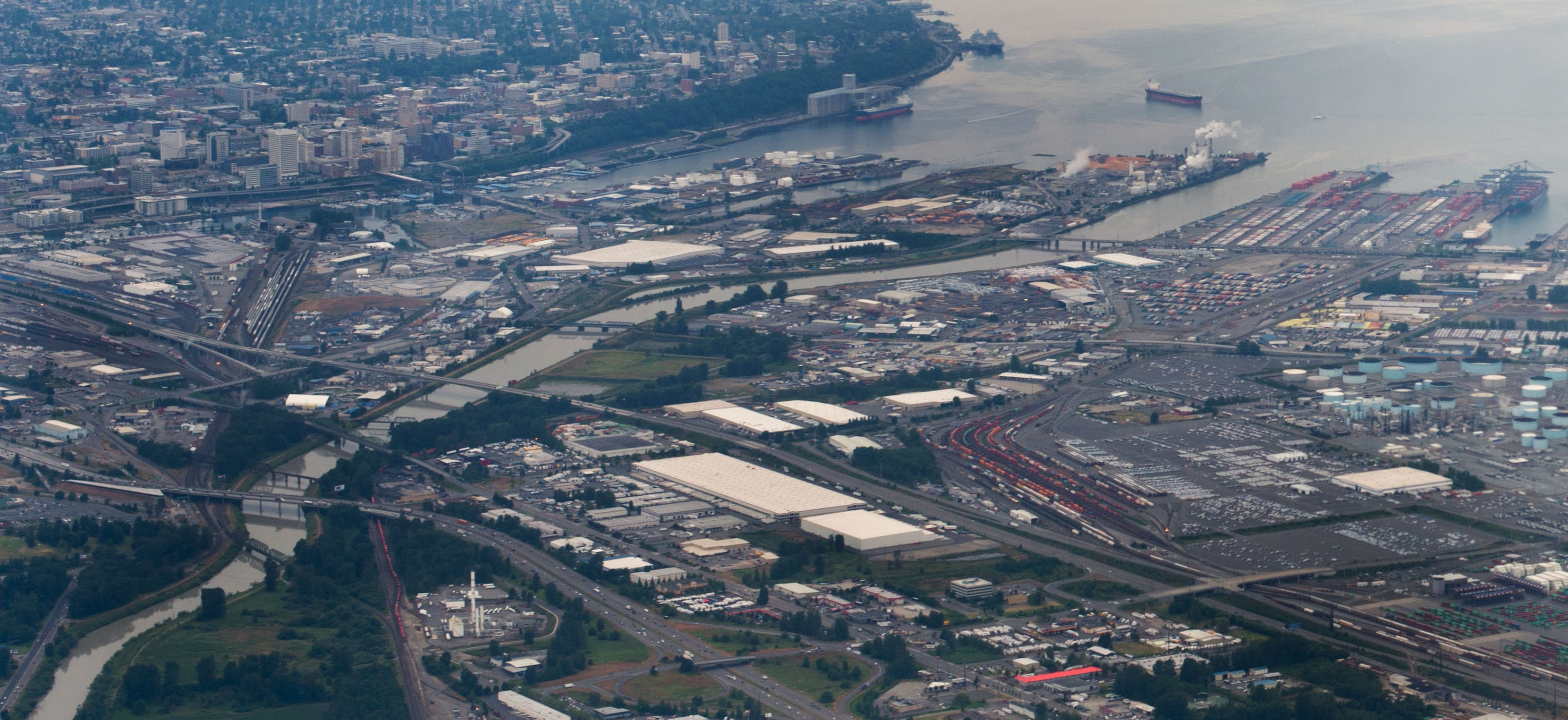 Port of Tacoma, where the Puyallup River (left) feeds into Commencement Bay. Harbor cranes line artificial waterways. Interstate highway I-5 crosses in the foreground, passing over Puyallup River on the Puyallup River Bridge. Behind it three more bridges cross, route 509, Lincoln Ave, and E 11th St. Downtown Tacoma is at upper-left. Across the bay is Vashon Island on right and the Olympic Penninsula on left in distance.